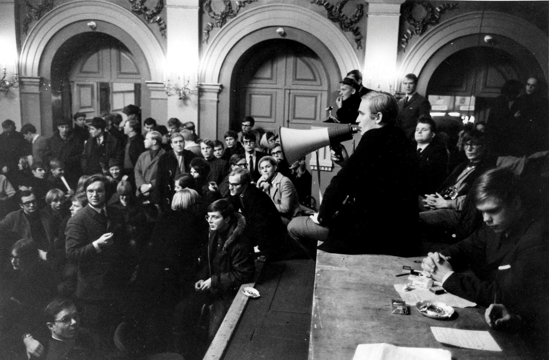 Photograph of the occupation of the Old Student House in Helsinki.